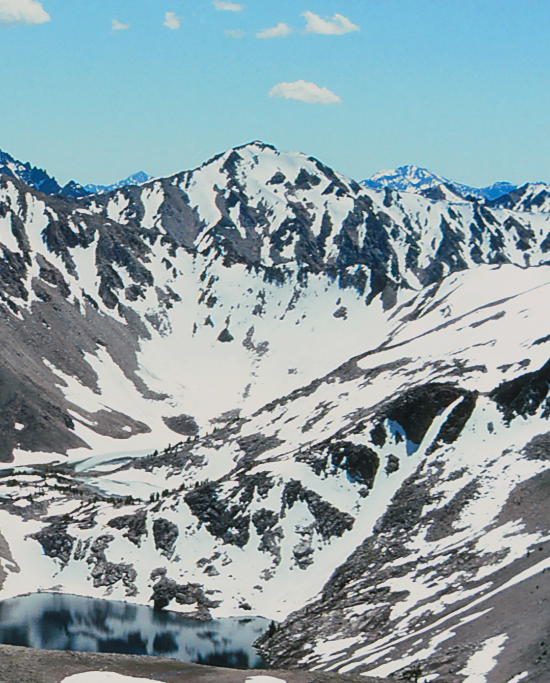 Lonesome Lake Peak in the White Cloud Mountains of Sawtooth National Recreation Area, Idaho. Sapphire Lake is at the bottom of the photo. Photo is a derivative of White Cloud Peaks, Sawtooth National Recreation Area ID.jpg by Roy Luck. Taken from the south flank of Calkens Peak.